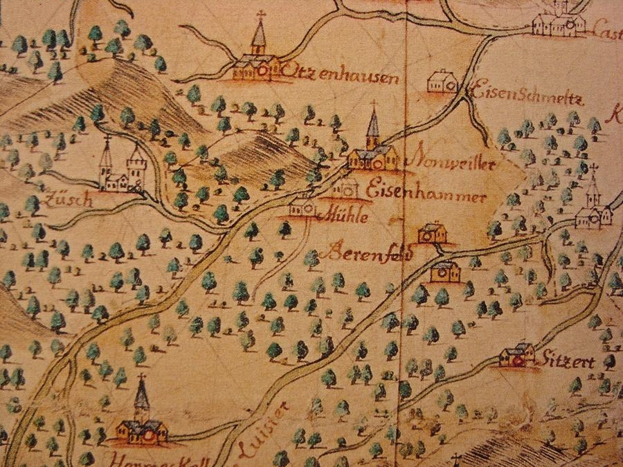 Region around Züsch and Nonnweiler.